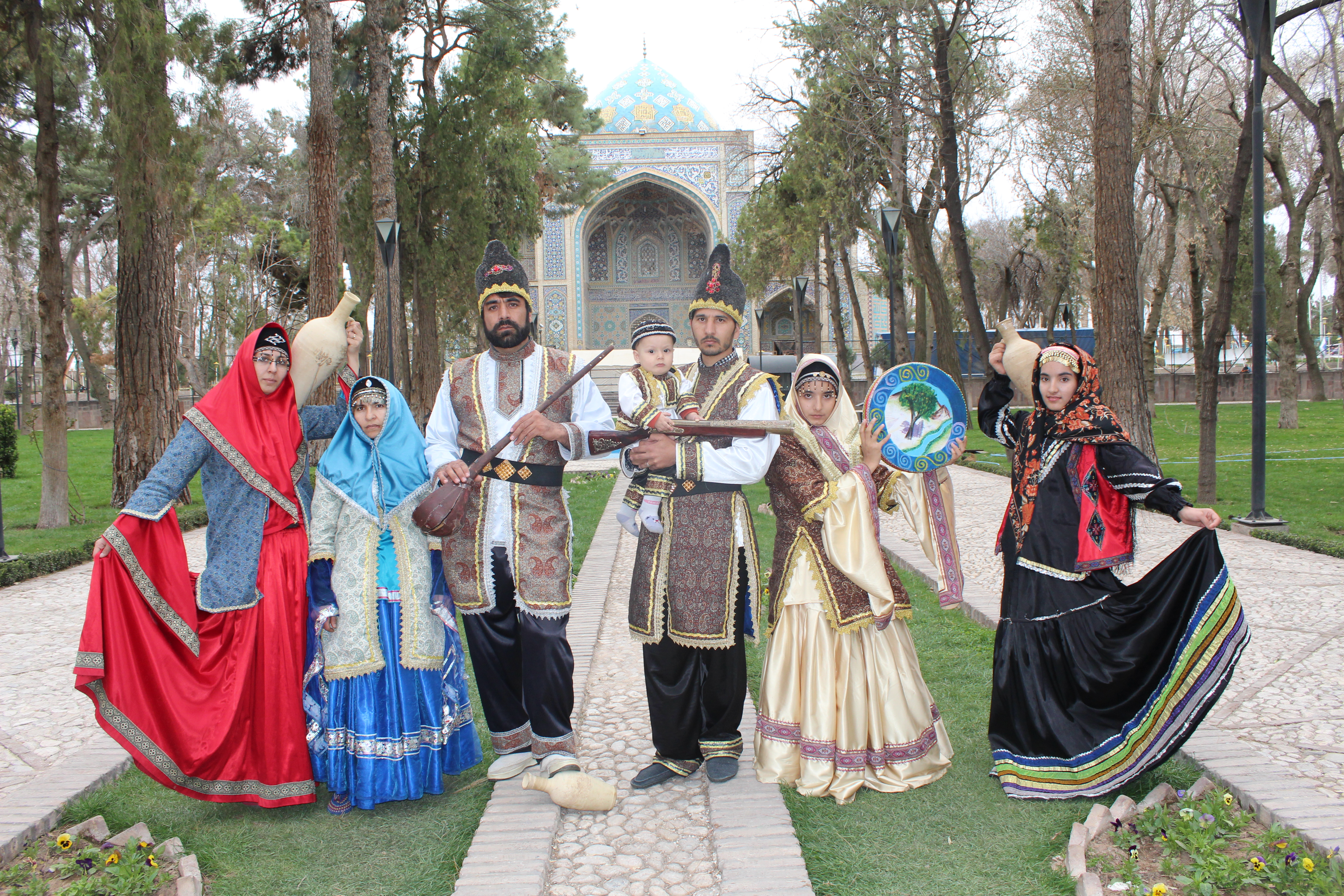 Iranian family,gathered together wearing traditional clothes